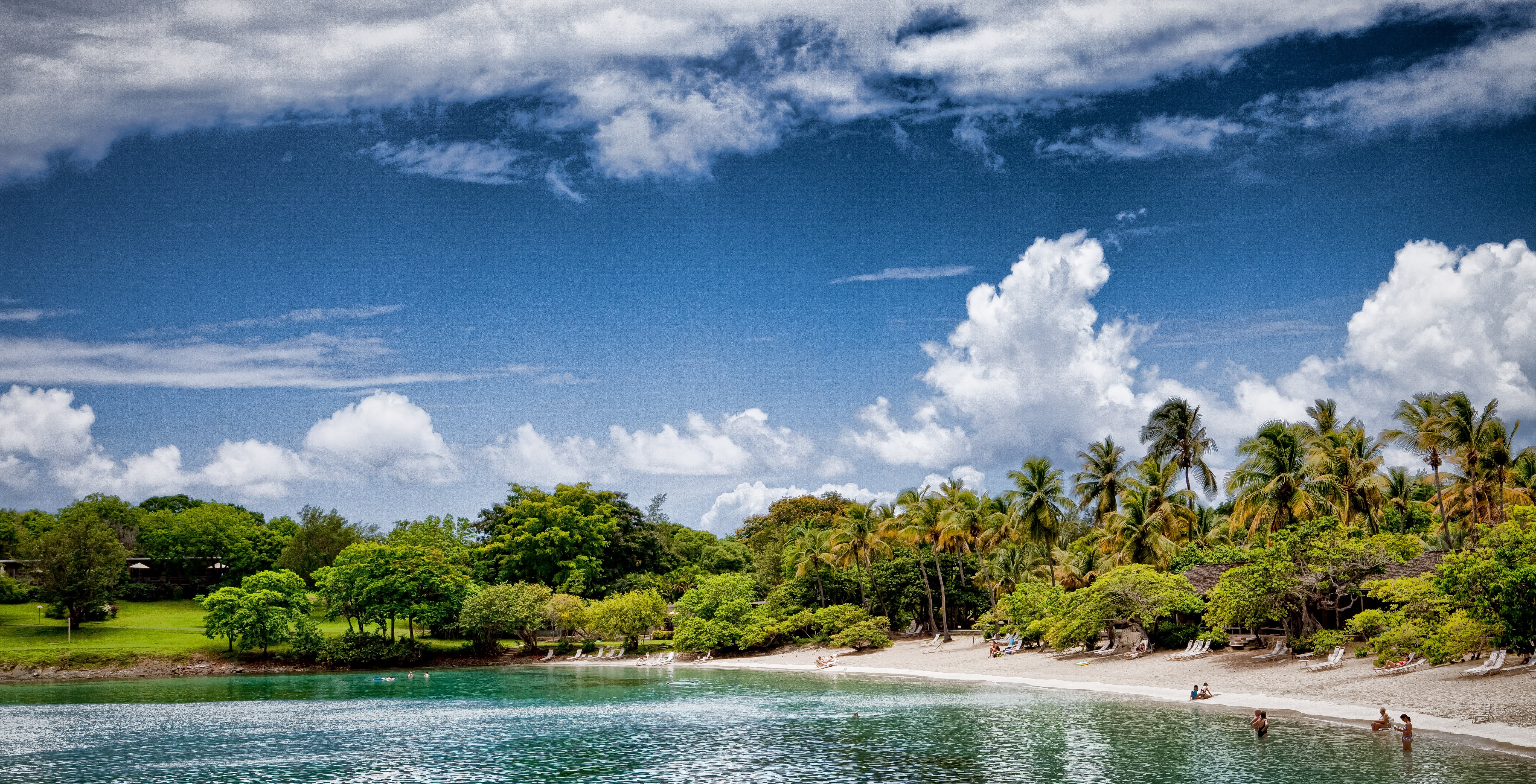 Photo at Caneel Bay